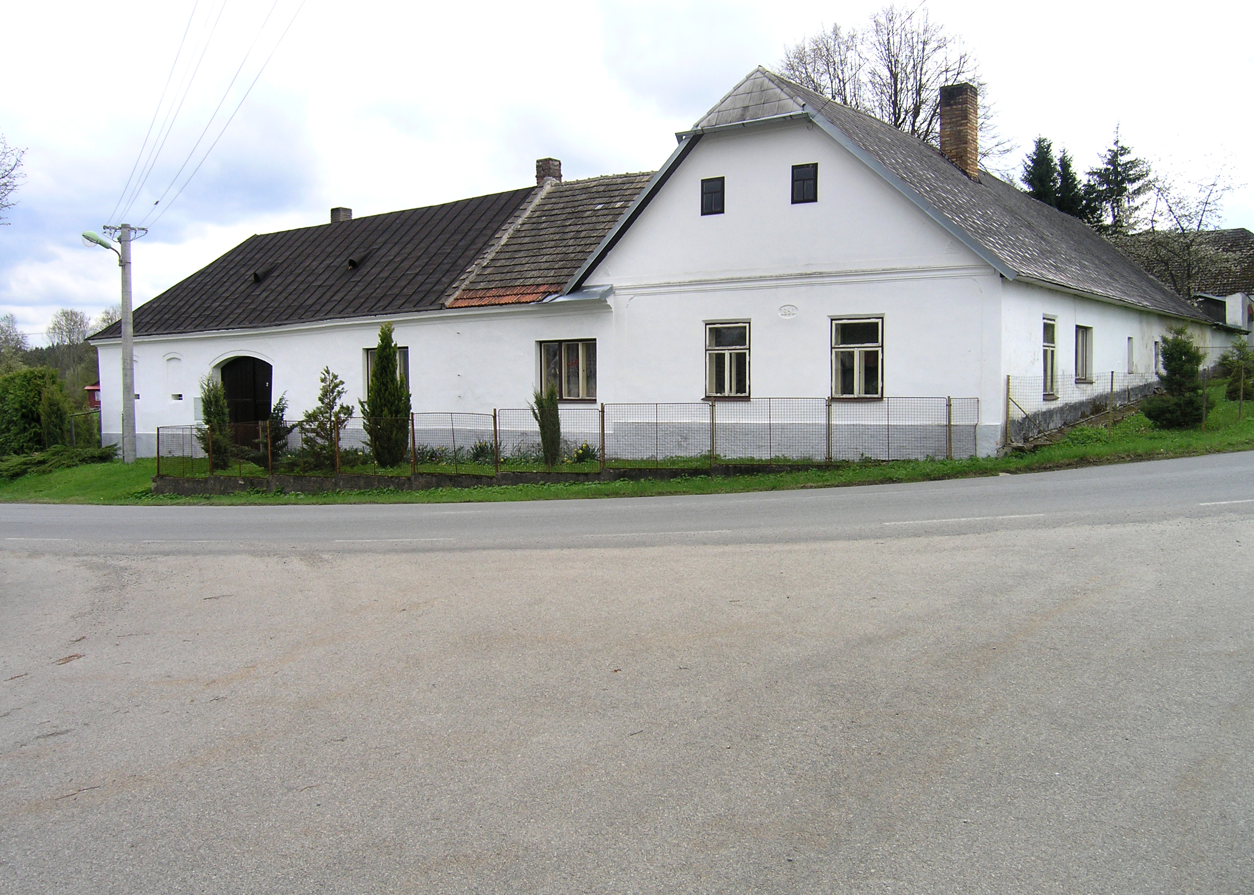 Road No. 132 Léskovec village, part of Počátky, Czech Republic